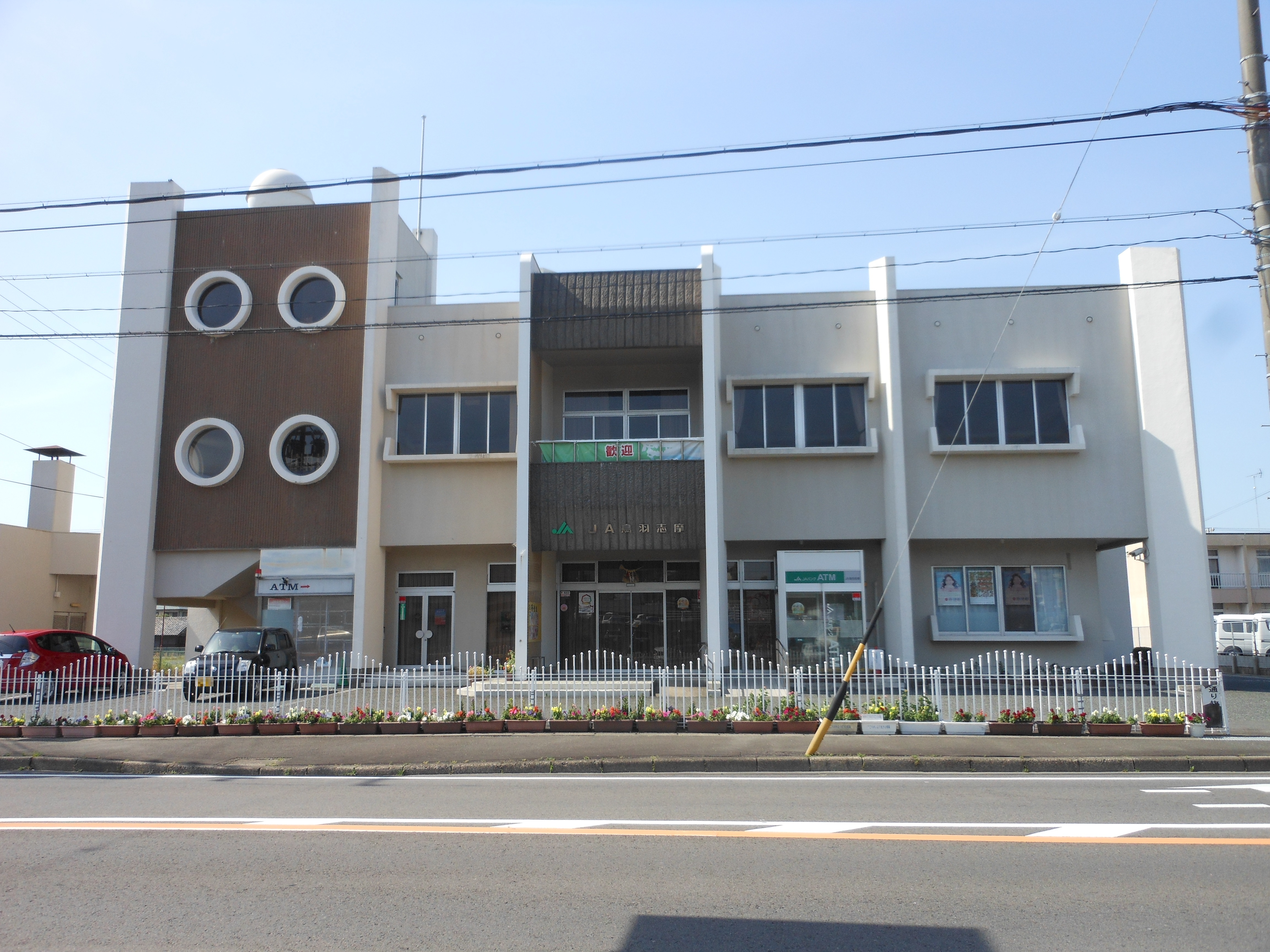 This is the Tobashima Agricultural Cooperative's head office buildind, which is located in Shima, Mie, Japan.